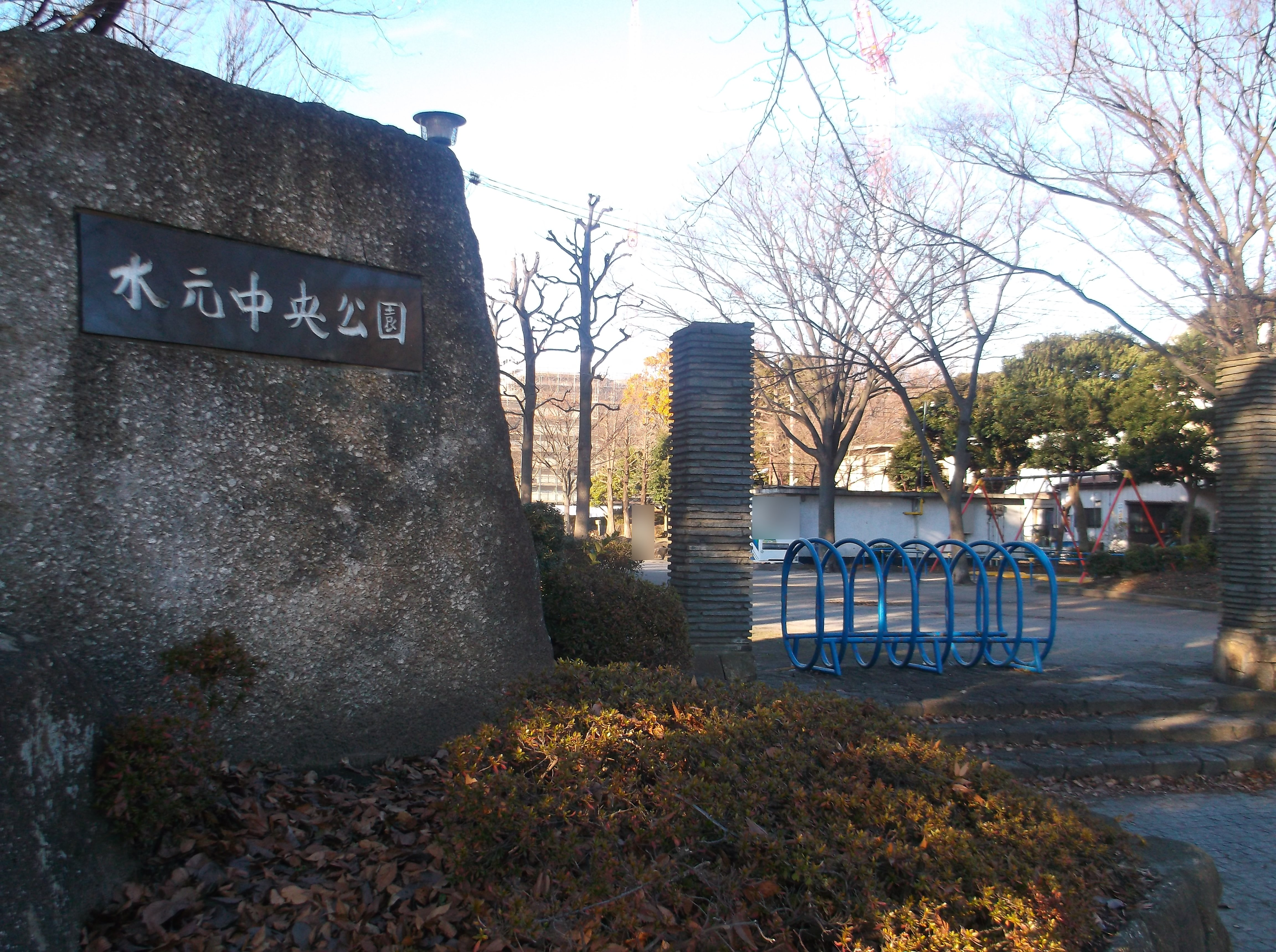 A photo of an entrance of Mizumoto Chuo Park,Mizumoto,Katsushika-ku,Tokyo,Japan.